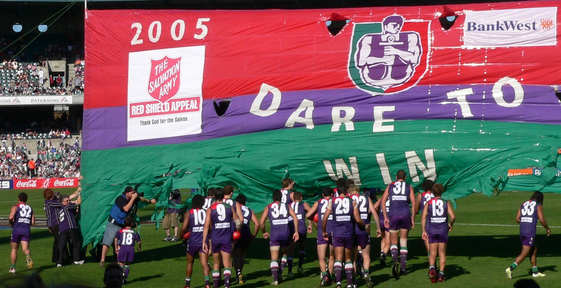 Fremantle entering the ground prior to a game against Collingwood at Subiaco Oval in 2005